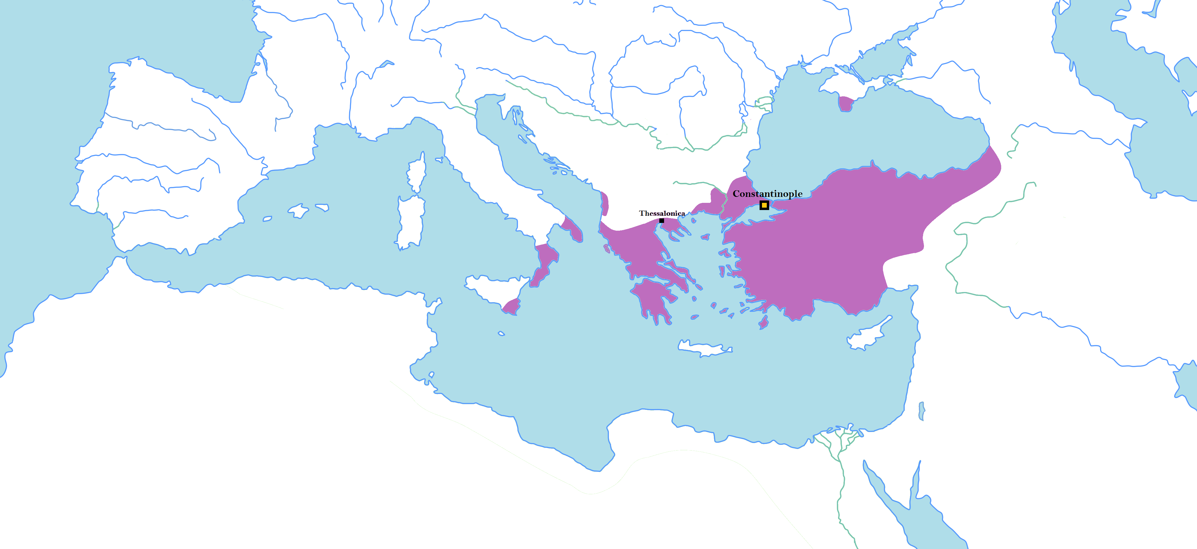 Map of the Byzantine Empire in 842 AD